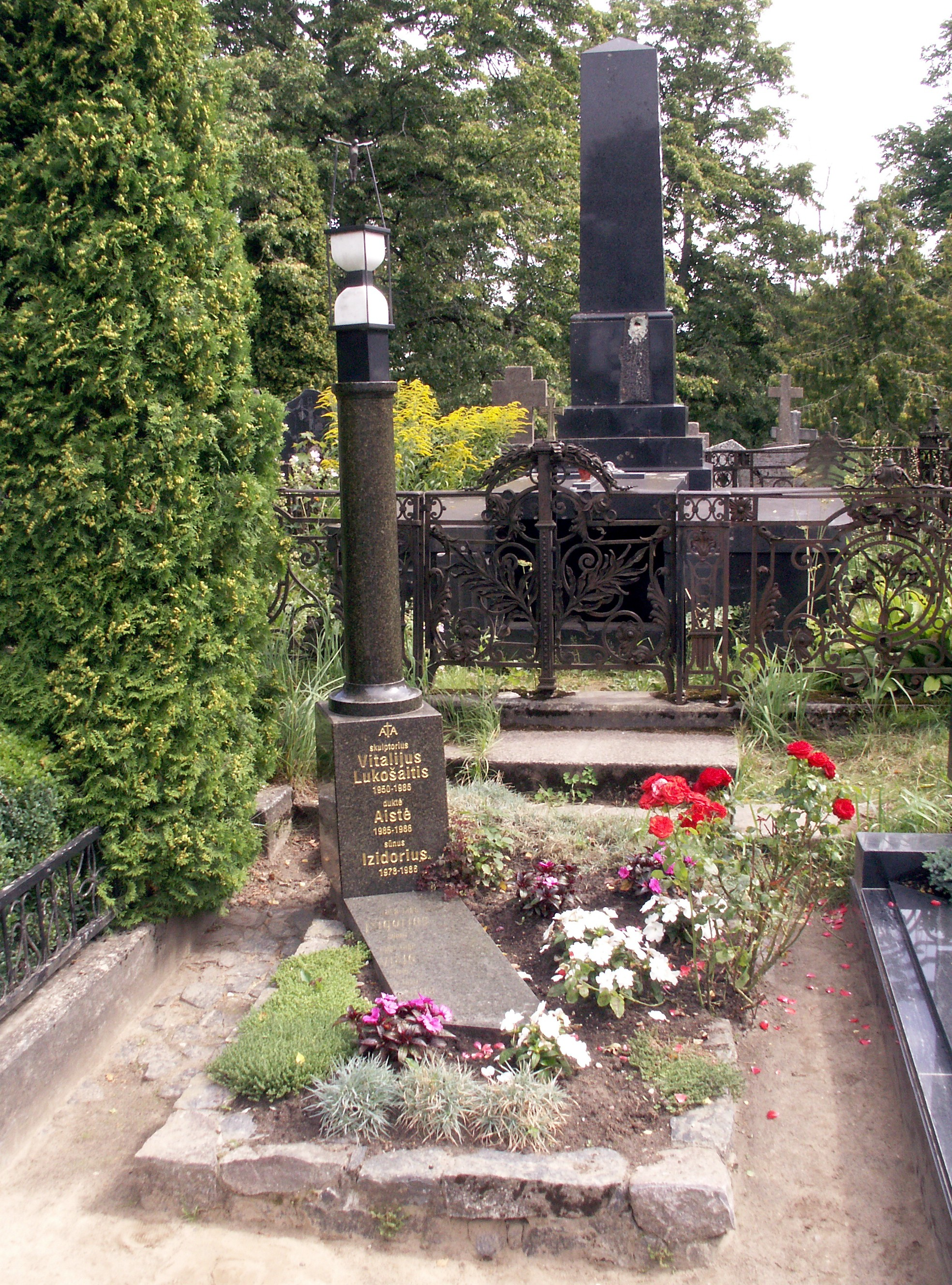 Grave of Vitalijus Lukošaitis in Kurtuvėnai cemetery, Šiauliai district, Lithuania